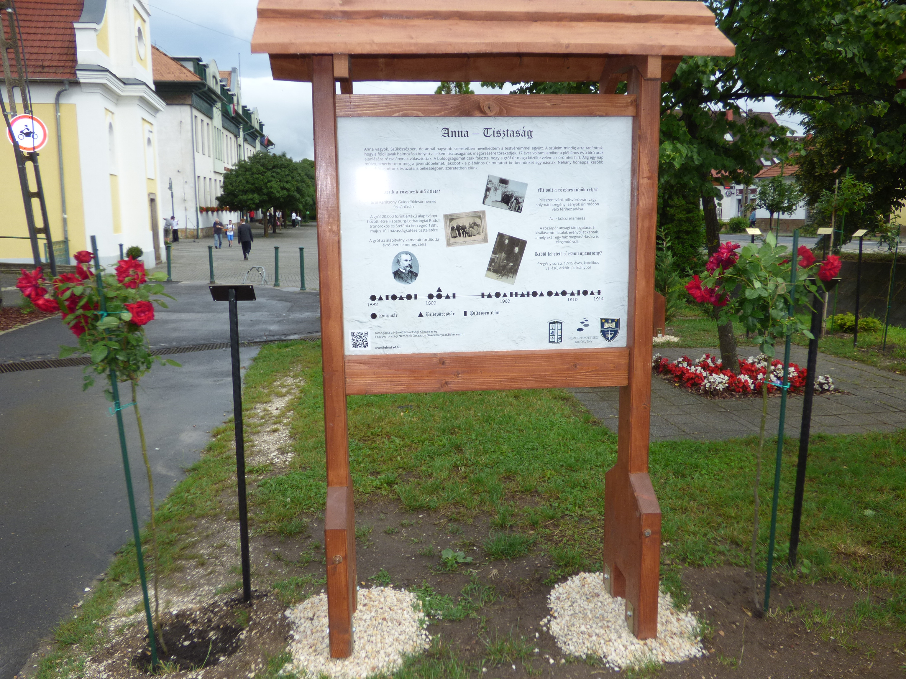 Tájékoztató tábla a pilisszentiváni német nemzetiségi tanösvény rózsaesküvős állomásán